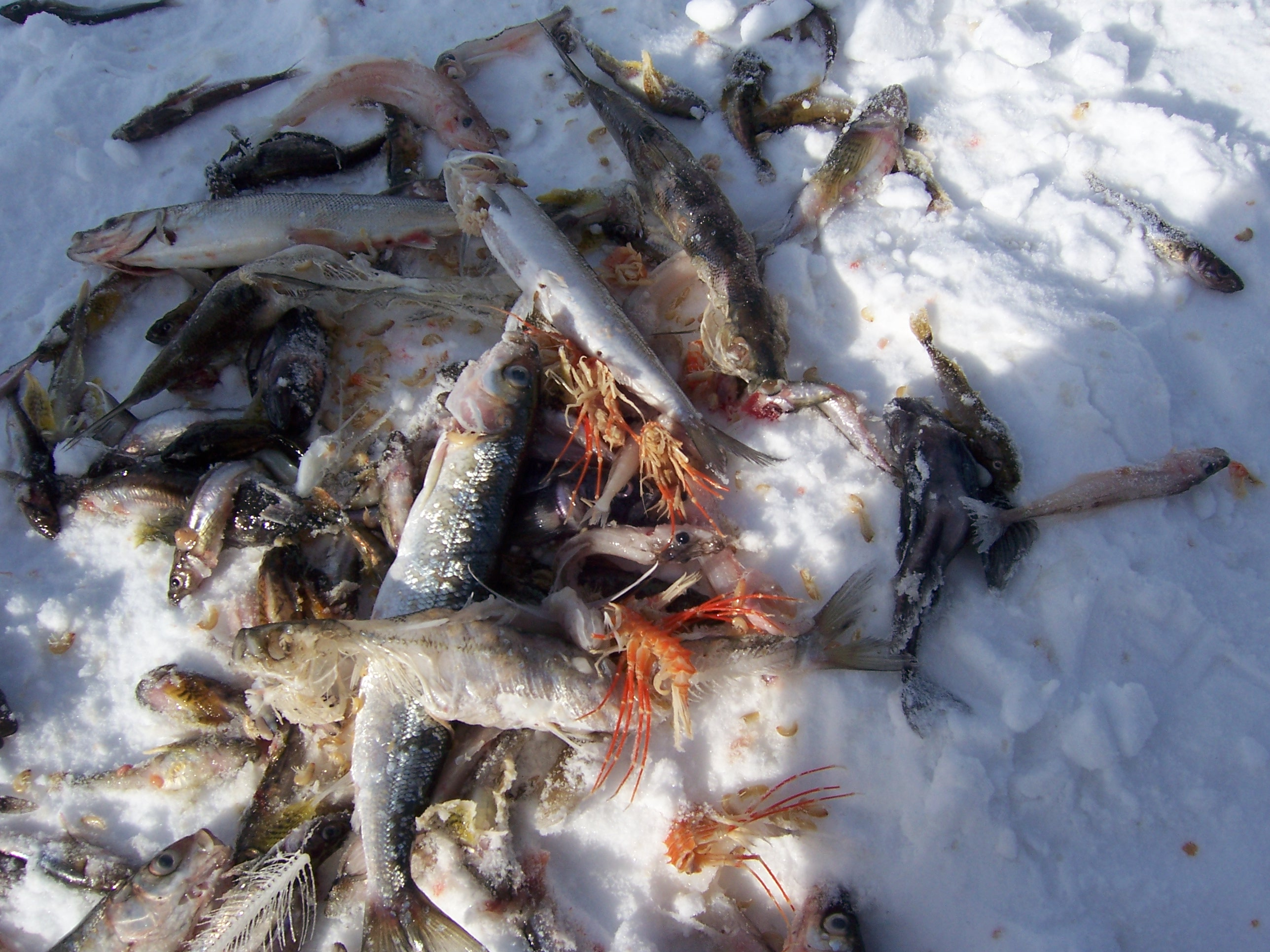 Results of Ice-fishing on Lake Baikal. Among the species visible on the photo are at least three fish species: Whitefish (Coregonus — for example, the five largest on the photo), golomyanka (Comephorus — the pinkish fish in the upper-left part of the photo; also others on photo) and Baikal yellowfin (Cottocomephorus grewingkii — the fish with yellowish pectoral fin in the upper-right part of the photo and another in the center-left; also others on photo). The red amphipods are Acanthogammarus reicherti.